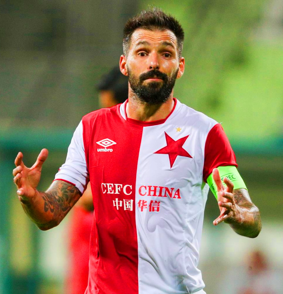 25.01.2018. Объединенные Арабские Эмираты, Дубай, «Мактум ибн Рашид Аль-Мактум». «Газпром»-тренировочные сборы в Дубае: товарищеский матч «Зенит» — «Славия».